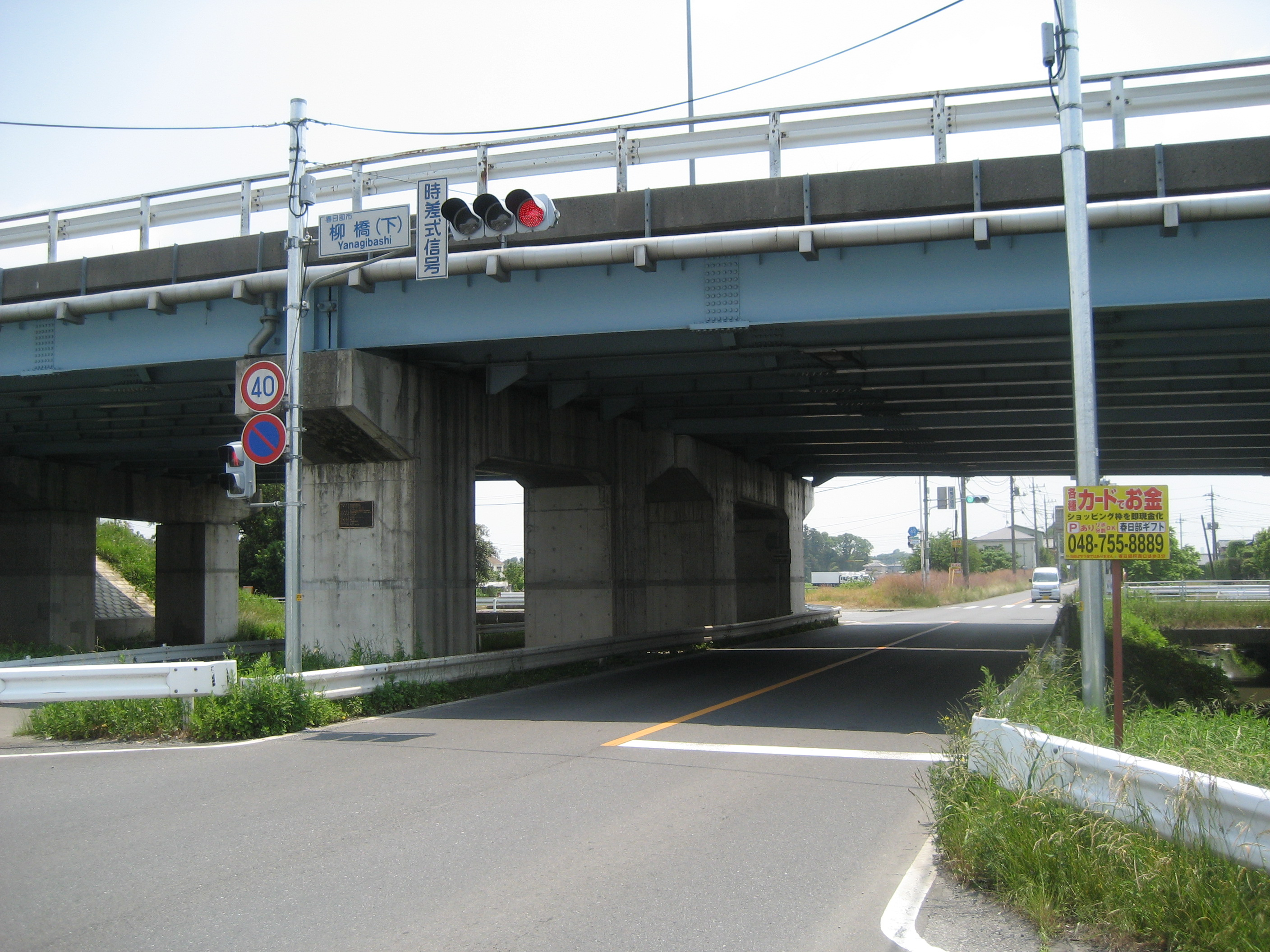 The Saitama Prefectural Road Route 42 at the Yanagibashi Intersection in Kasukabe City